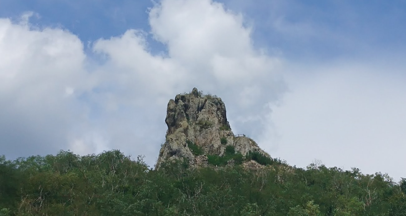 Hajnacka castle